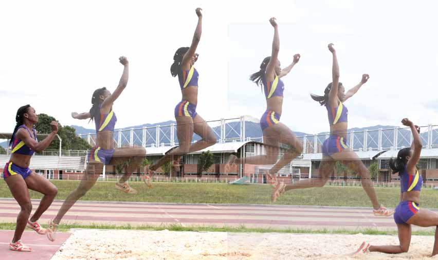 long jump